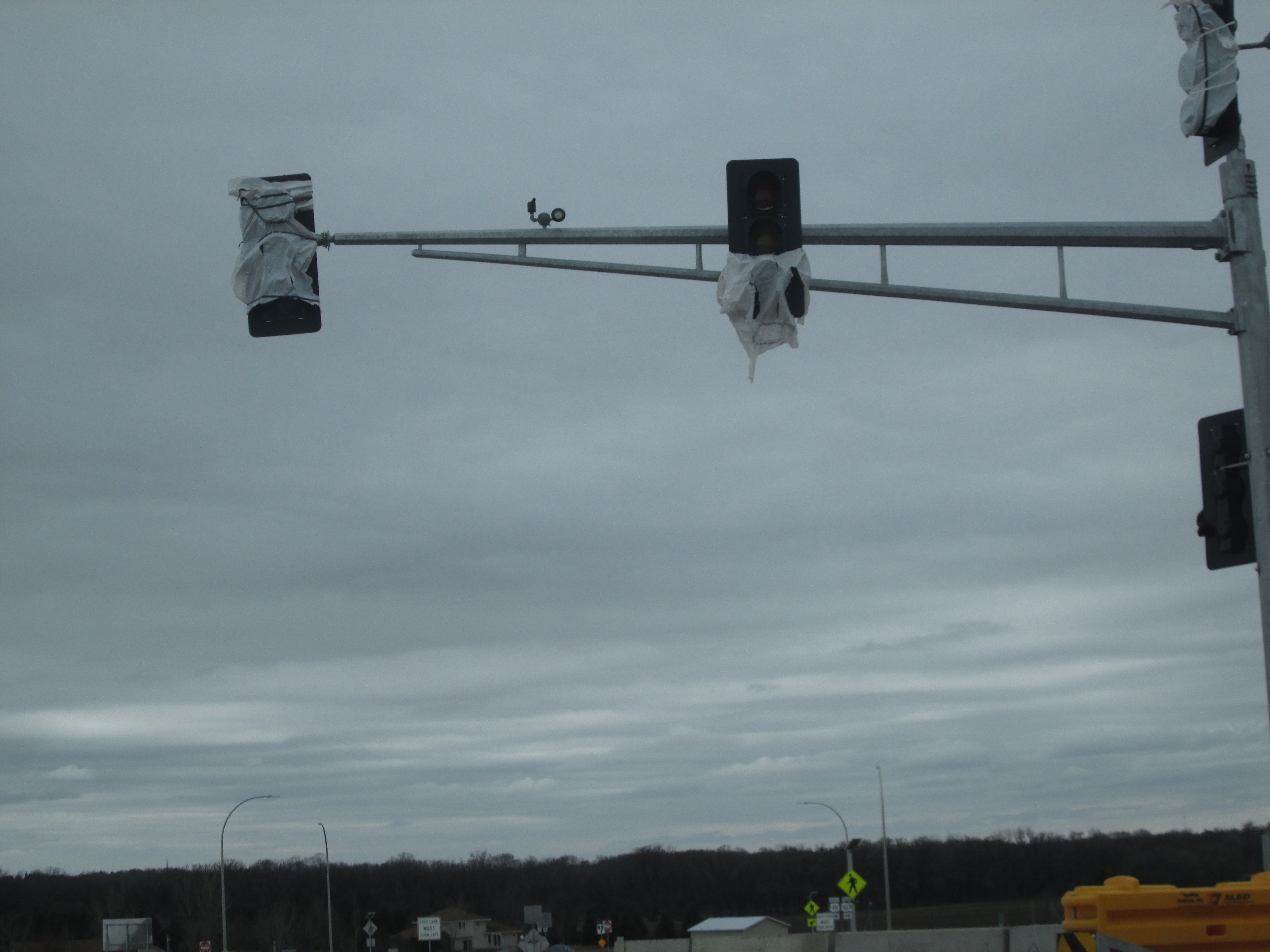 Construction site for the new US 10 / US 169 interchange with Armstrong Boulevard in Ramsey, Minnesota.